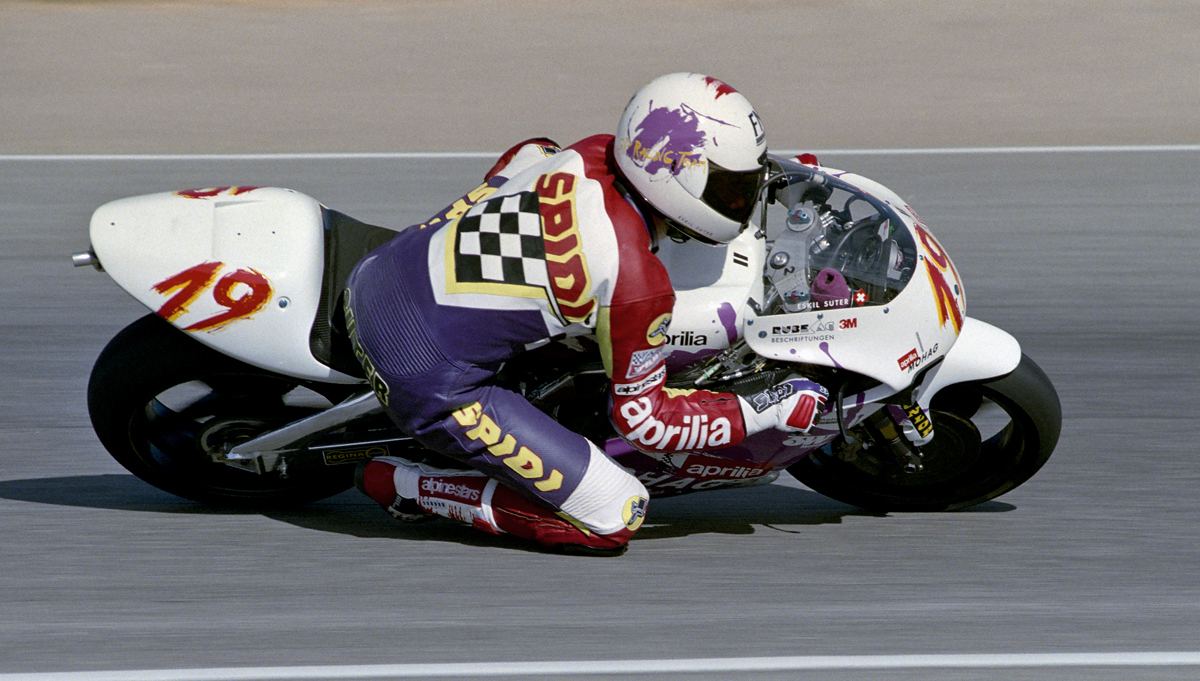 Eskil Suter at 1994 USGP Laguna Seca